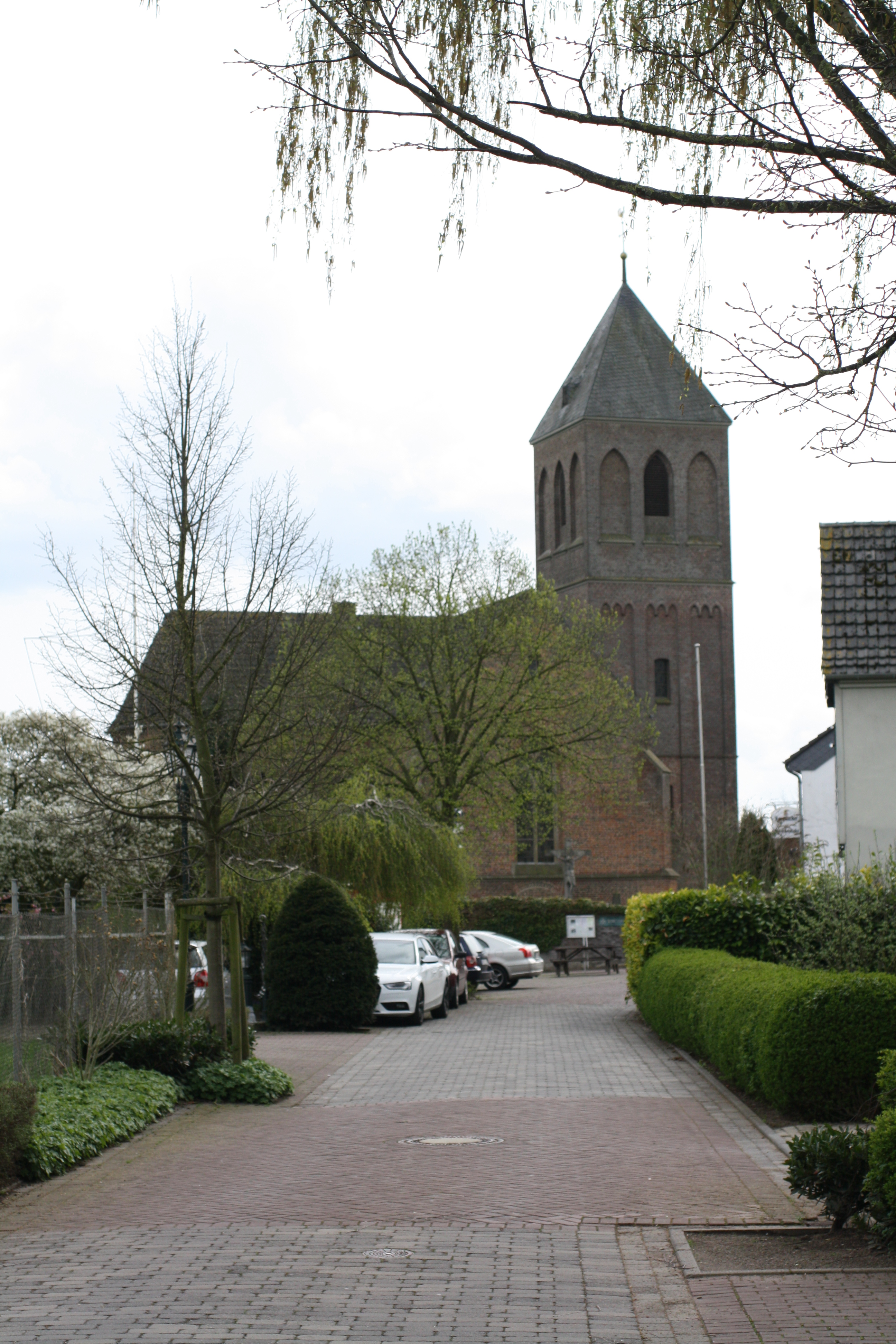 St. John Baptist church in Dornick, Emmerich, North Rhine-Westphalia, Germany